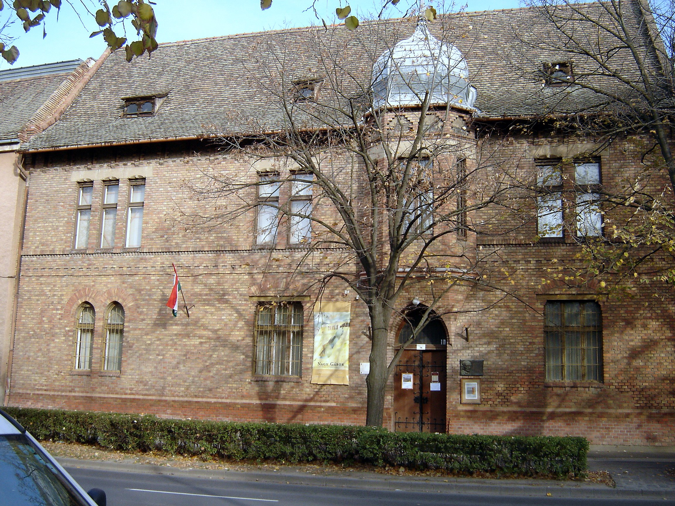 Tornyai János Museum in Hódmezővásárhely